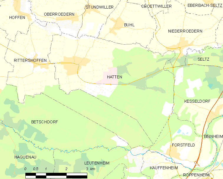 Map of French municipality